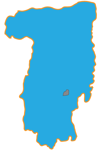 vl1